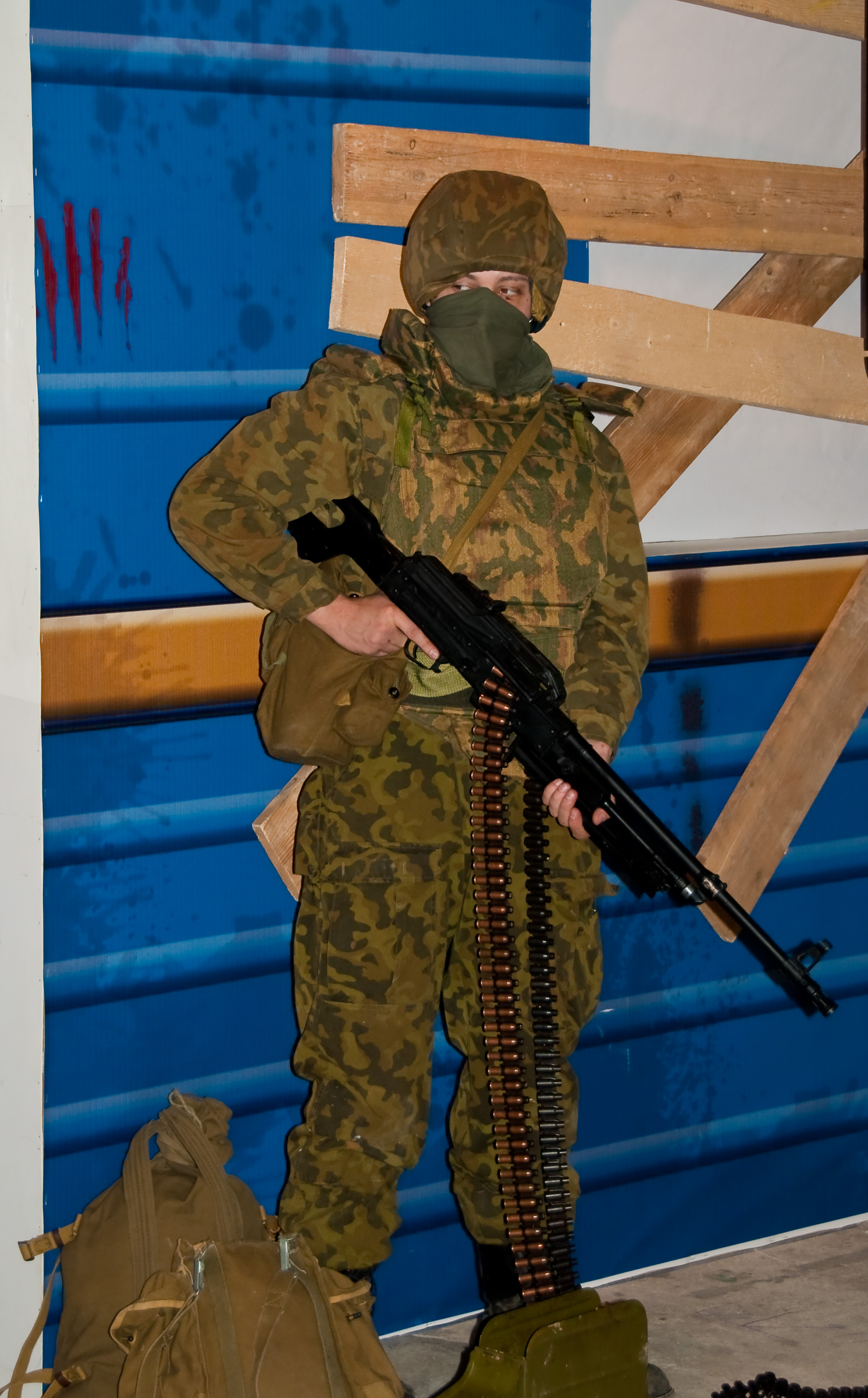 Taken on November 5, 2009 Ostankinskiy, Moskva, RU Nikon D40X